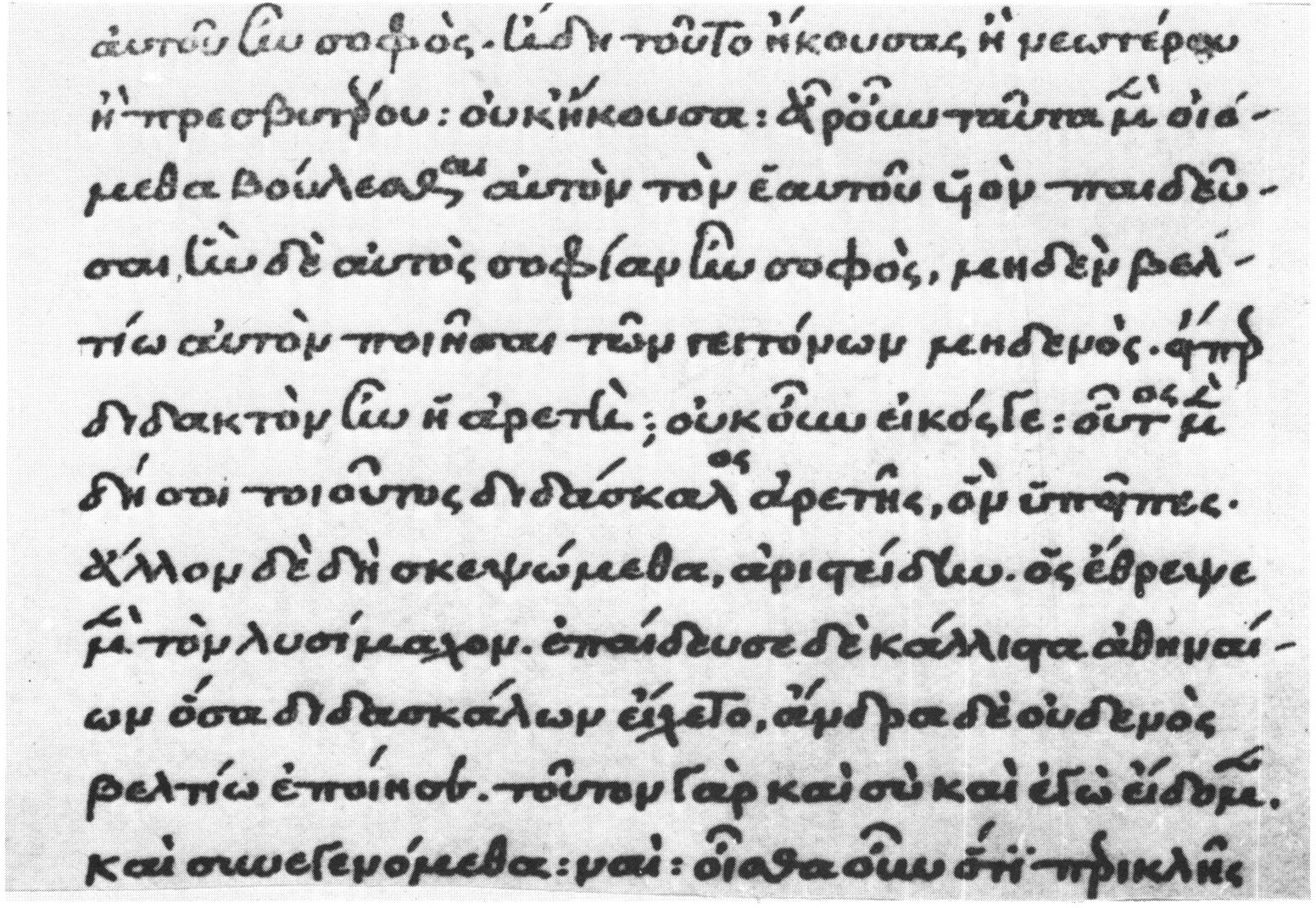 A Greek text written by Leonardo Bruni: Biblioteca Apostolica Vaticana, Vaticanus Urbinas gr. 32, fol. 2r.